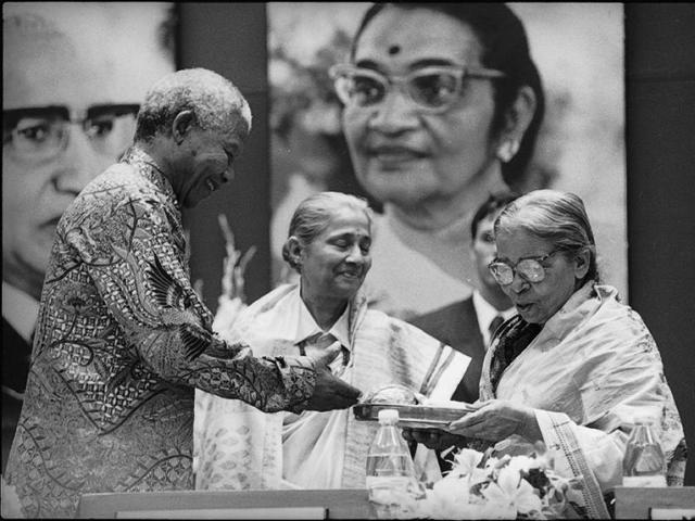 Raman Magsasy award